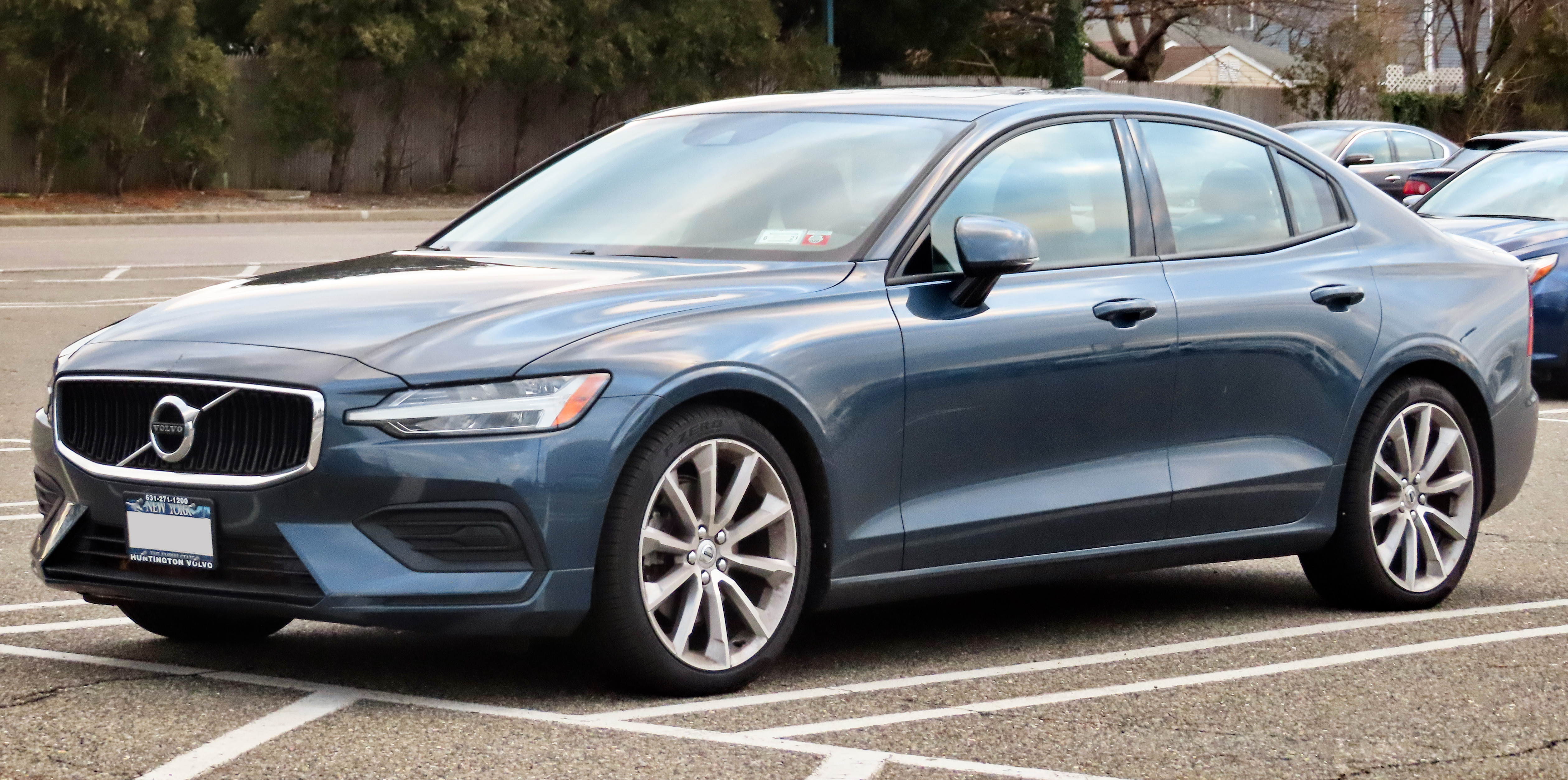 A 2019 Volvo S60 photographed at Broadway Mall, in Hicksville, New York, USA